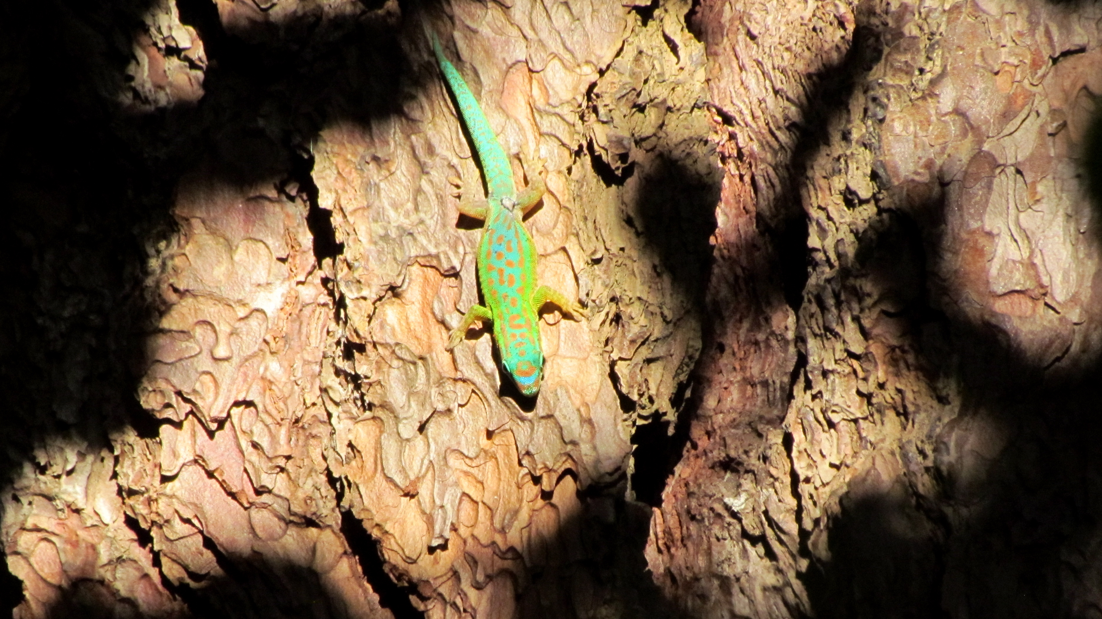 Blue tailed gecko